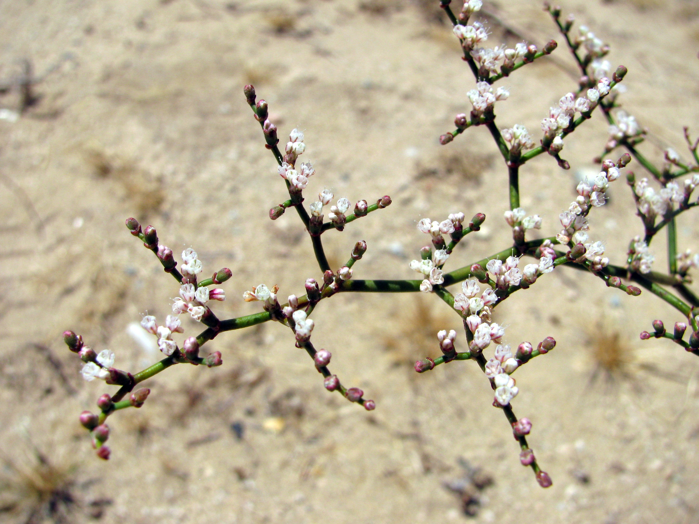 Eriogonum plumatella, flowers, as observed in Joshua Tree, California, June 2015